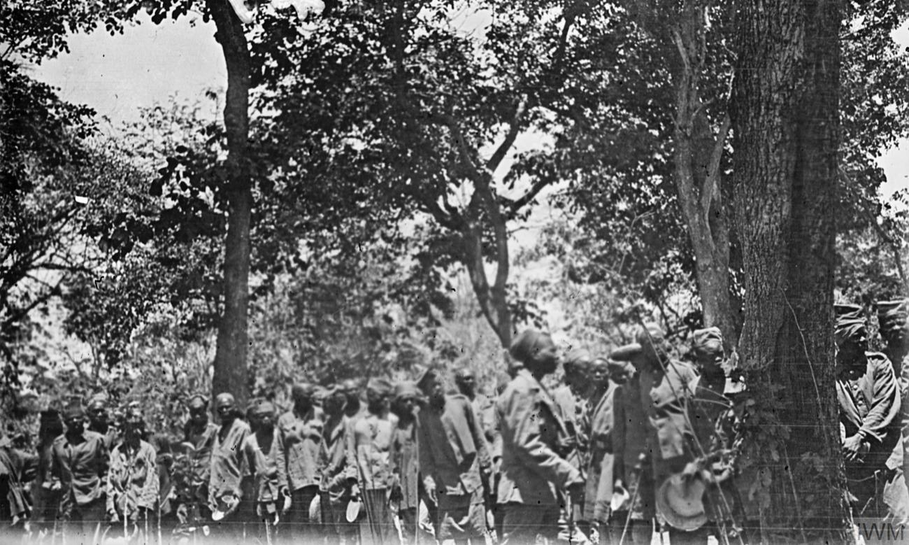 Captured German Askari waiting to draw their rations on Lindi Line, late 1917.